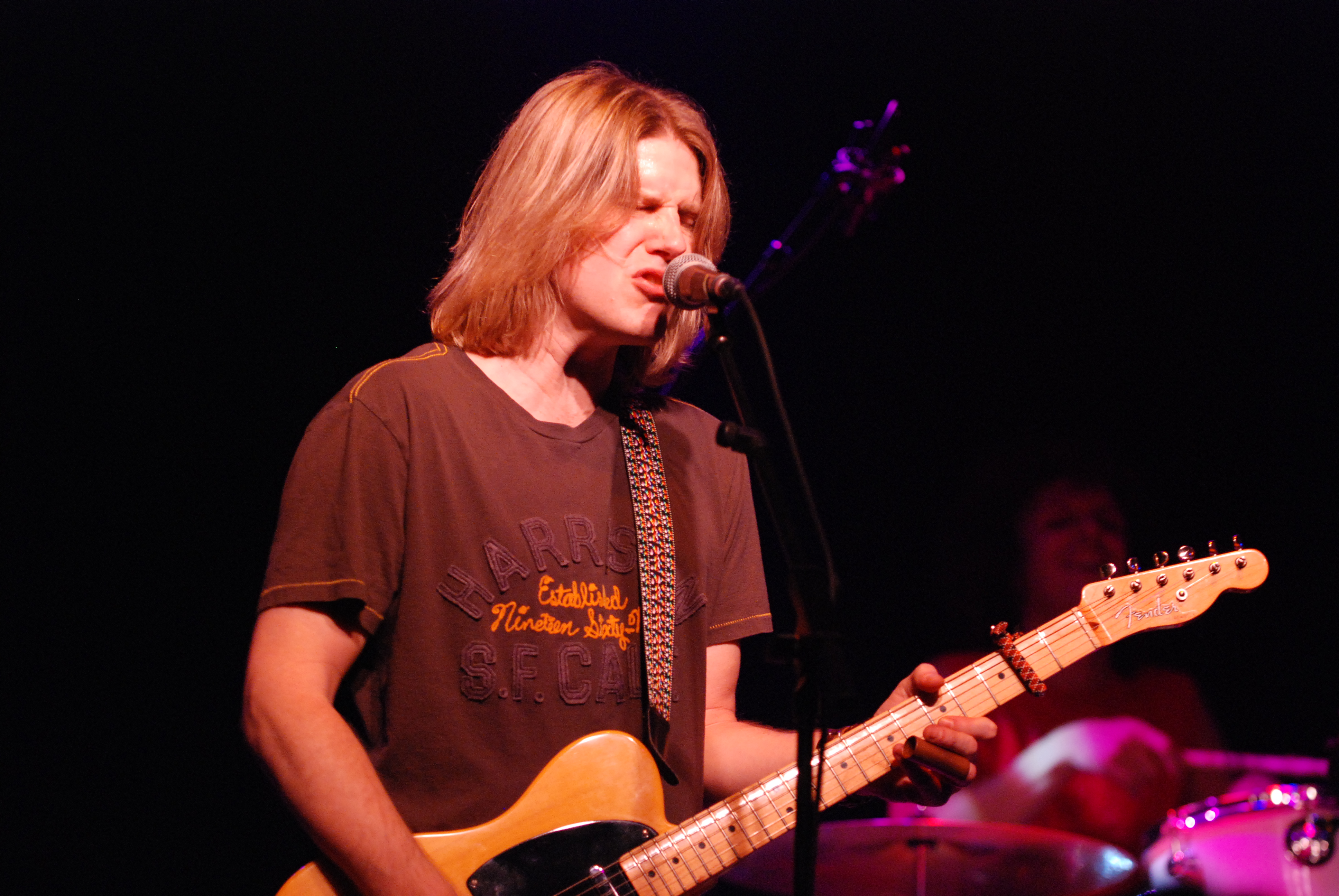 Guitar Heaven Concert 9-12-07 Zoetermeer Holland